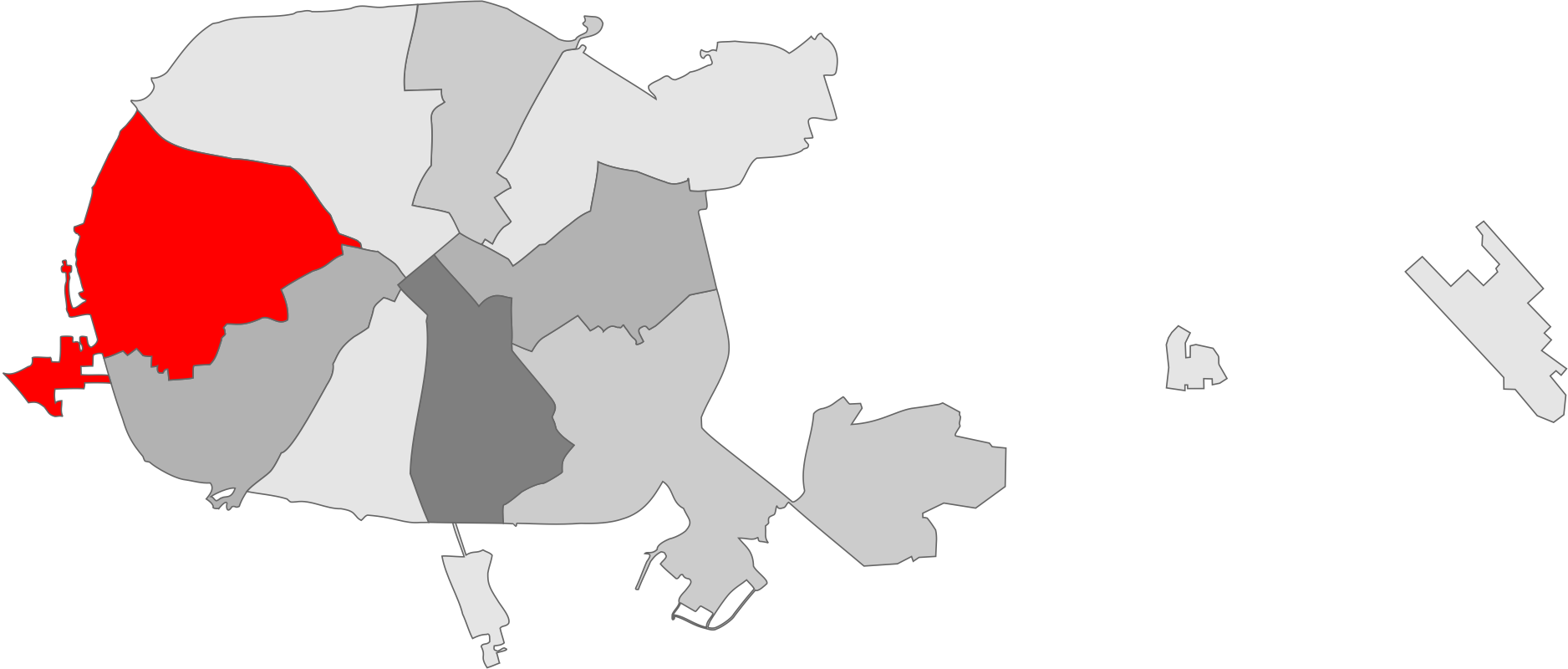 ==Frunzenski district within city limits of Minsk